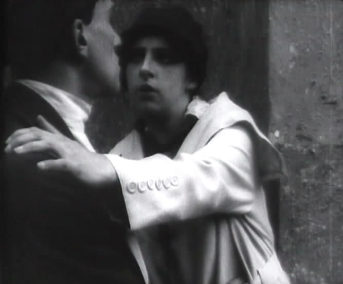 Vladimir Mayakovsky and Alexandra Rebikova in the film "Baryshnya i khuligan", 1918